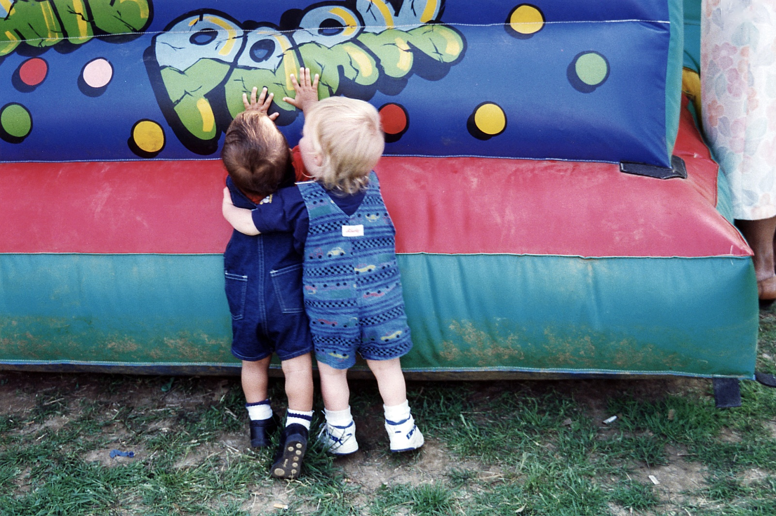 Childhood friends at a carnival